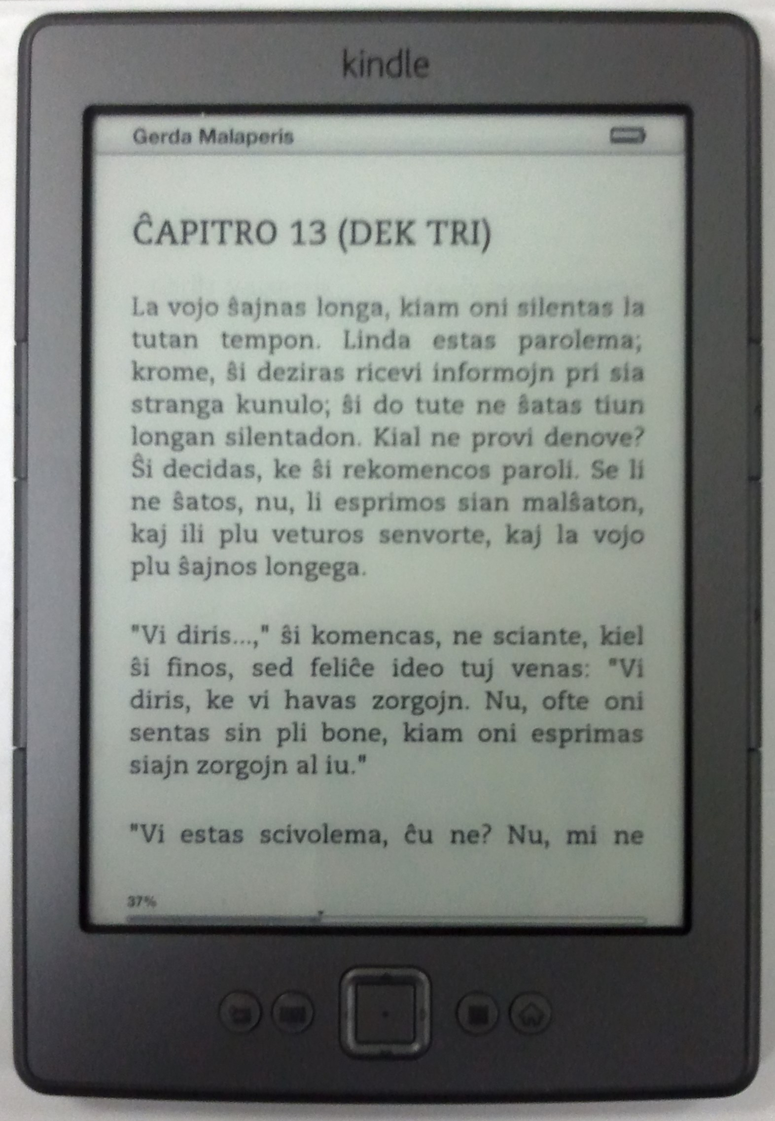 Kindle 4 (2011) showing Esperanto characters.